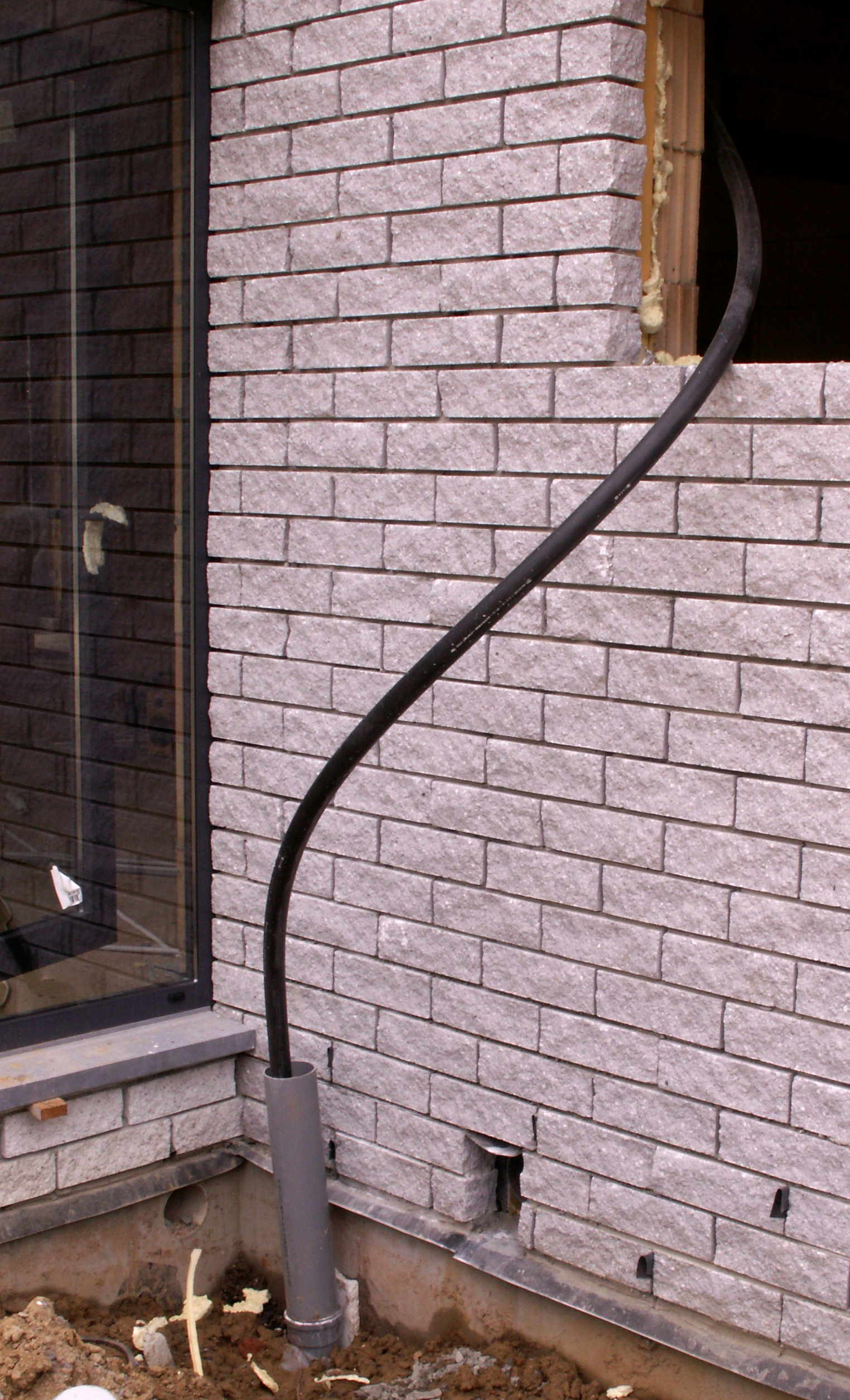 A picture of a rain pipe being installed on a house. Note that the actual water transportation tube is flexible and is inserted into another (PVC) tube. This is offcourse wasteful, and environmentally-unfriendly and alternatives as a single tube of galvanized steel should be preferred.